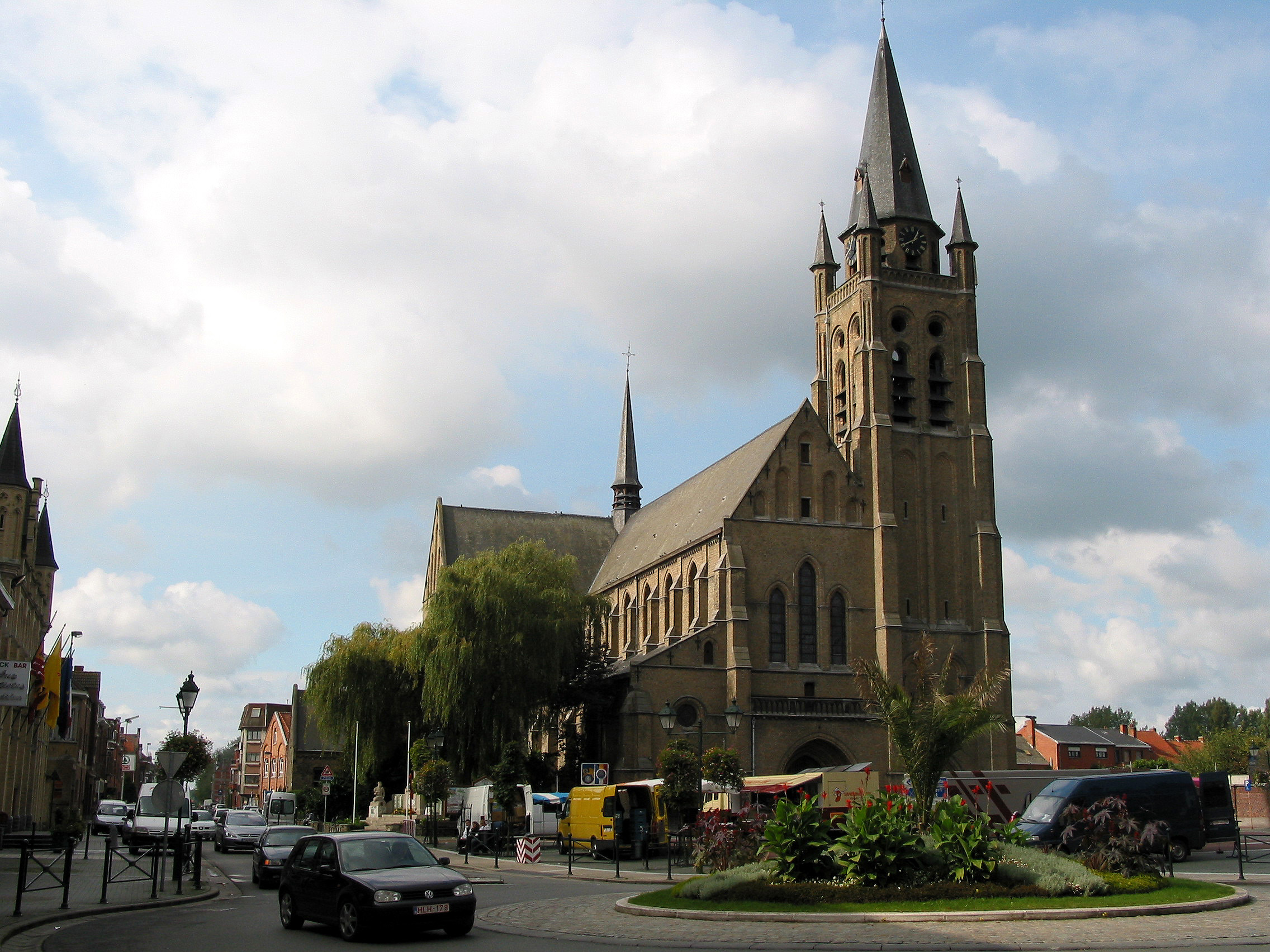 Comines (Belgium) the St. Chrysole church (1912).